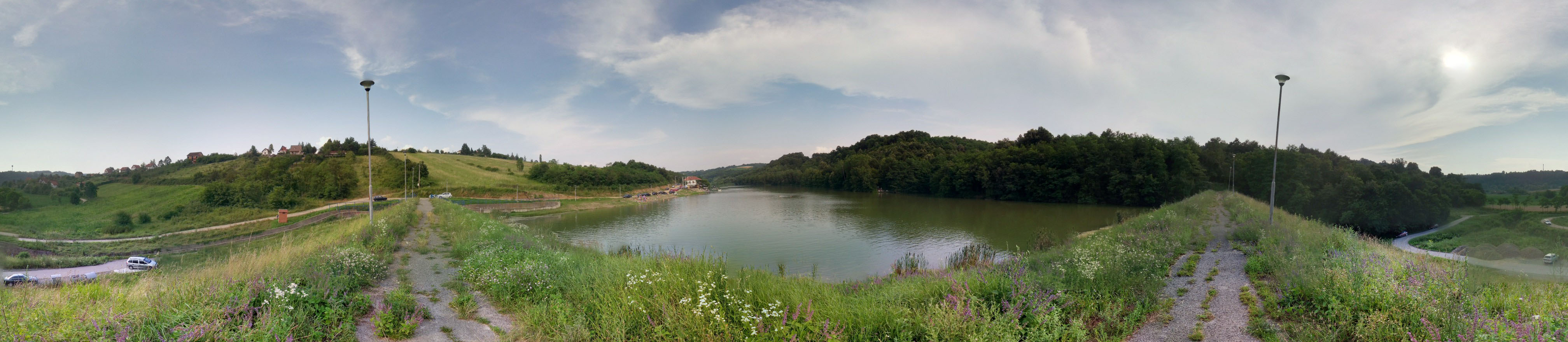 Panorama photo of Duboki Potok Lake, near Barajevo. July 2016. Srpski (latinica): Panorama jezera Duboki Potok kod Barajeva. Jul 2016.